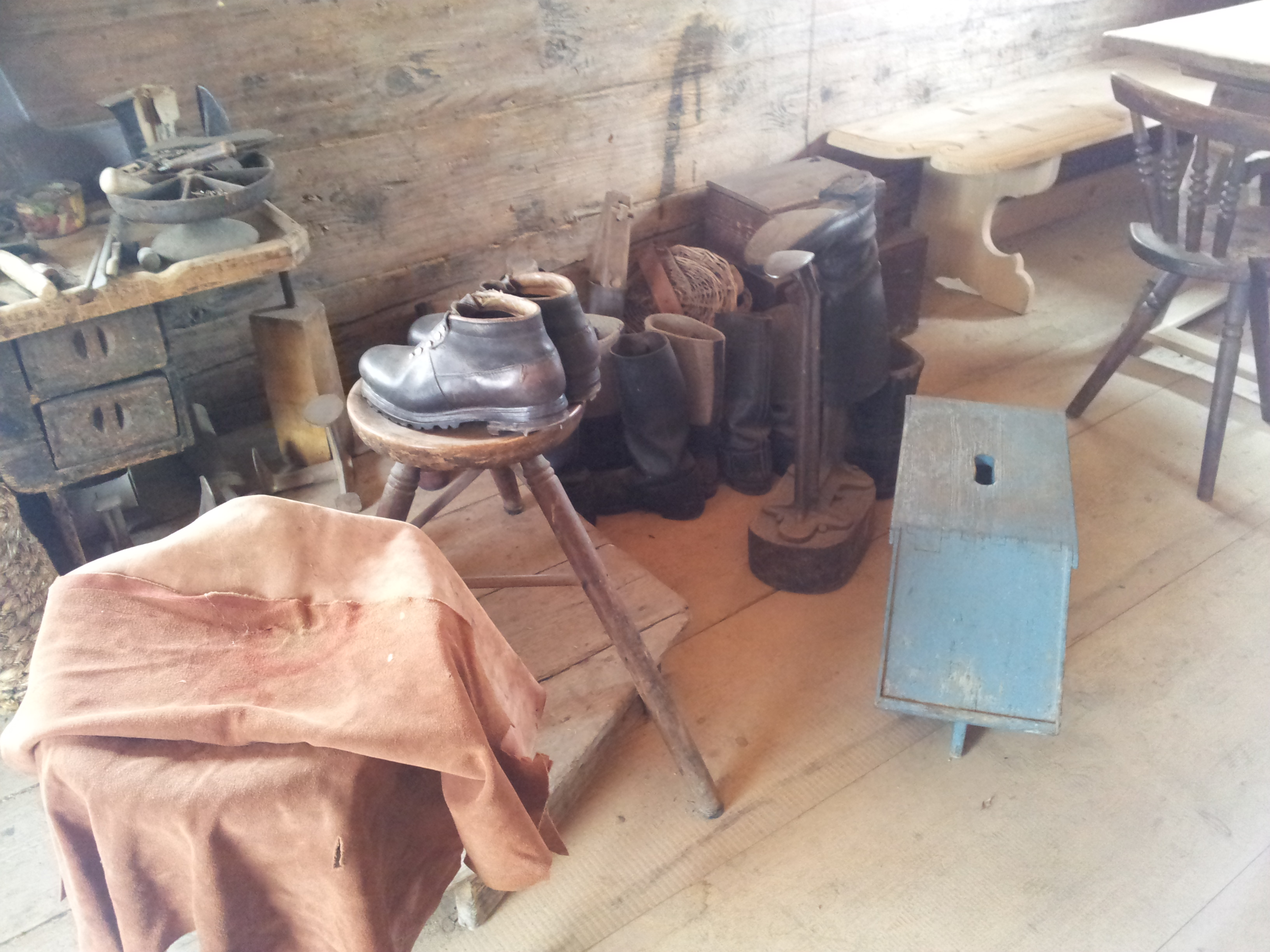 Markus Wasmeier farm and winter sports museum, shoemaker